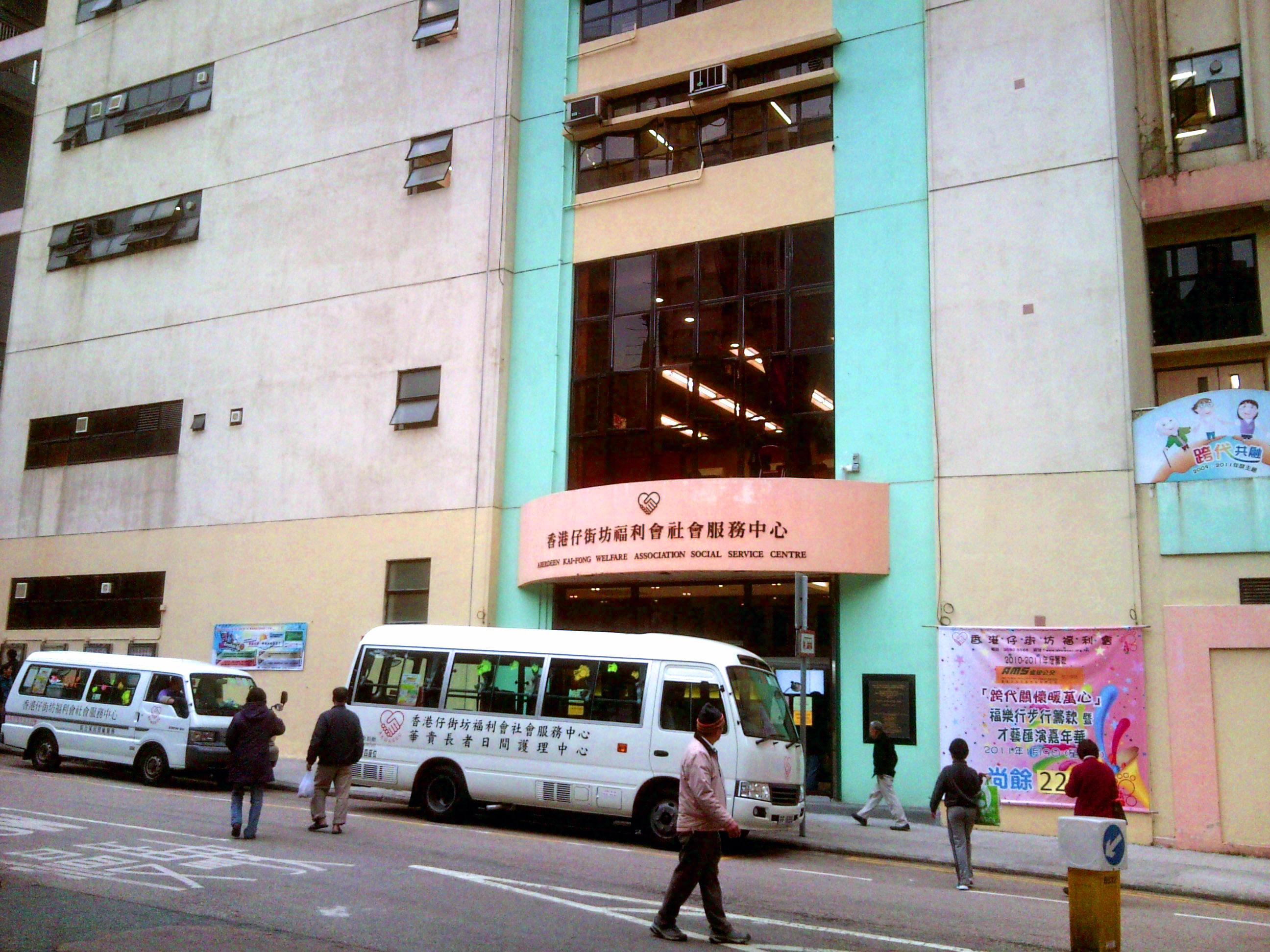 Aberdeen Kai-fong Welfare Association Social Service Centre